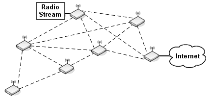 mesh cloud with one node that has internet connection